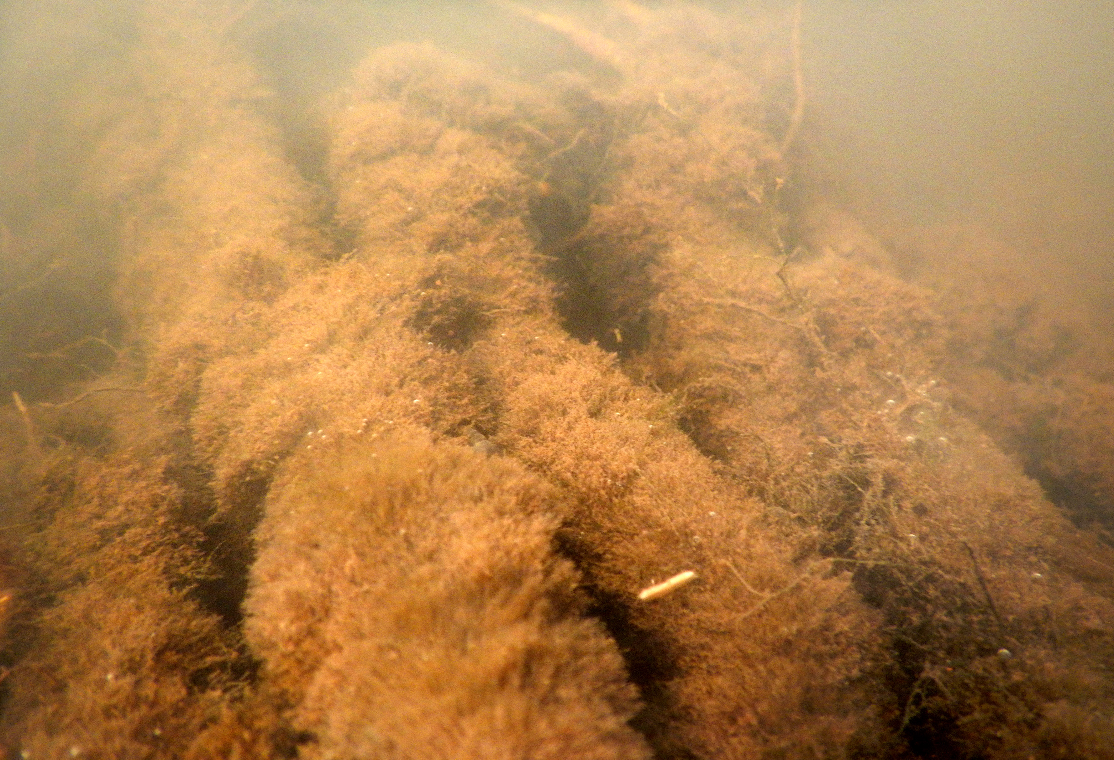 Symbiotic association (apparently of filamentous bacteria) forming a dense sleeve (thickness of a finger) disposed around the roots of a big alder. Underwater photograph taken in a pond of a public garden in Lille (north of France). The precise location is a low-velocity zone of a smal stream, the bottom of the pound is rich in red shale particles (from black shale "cooked" in heaps burning in the region). In this place, the water that flows il often are strongly turbid after heavy rains because in part by the runoff paths red shale.